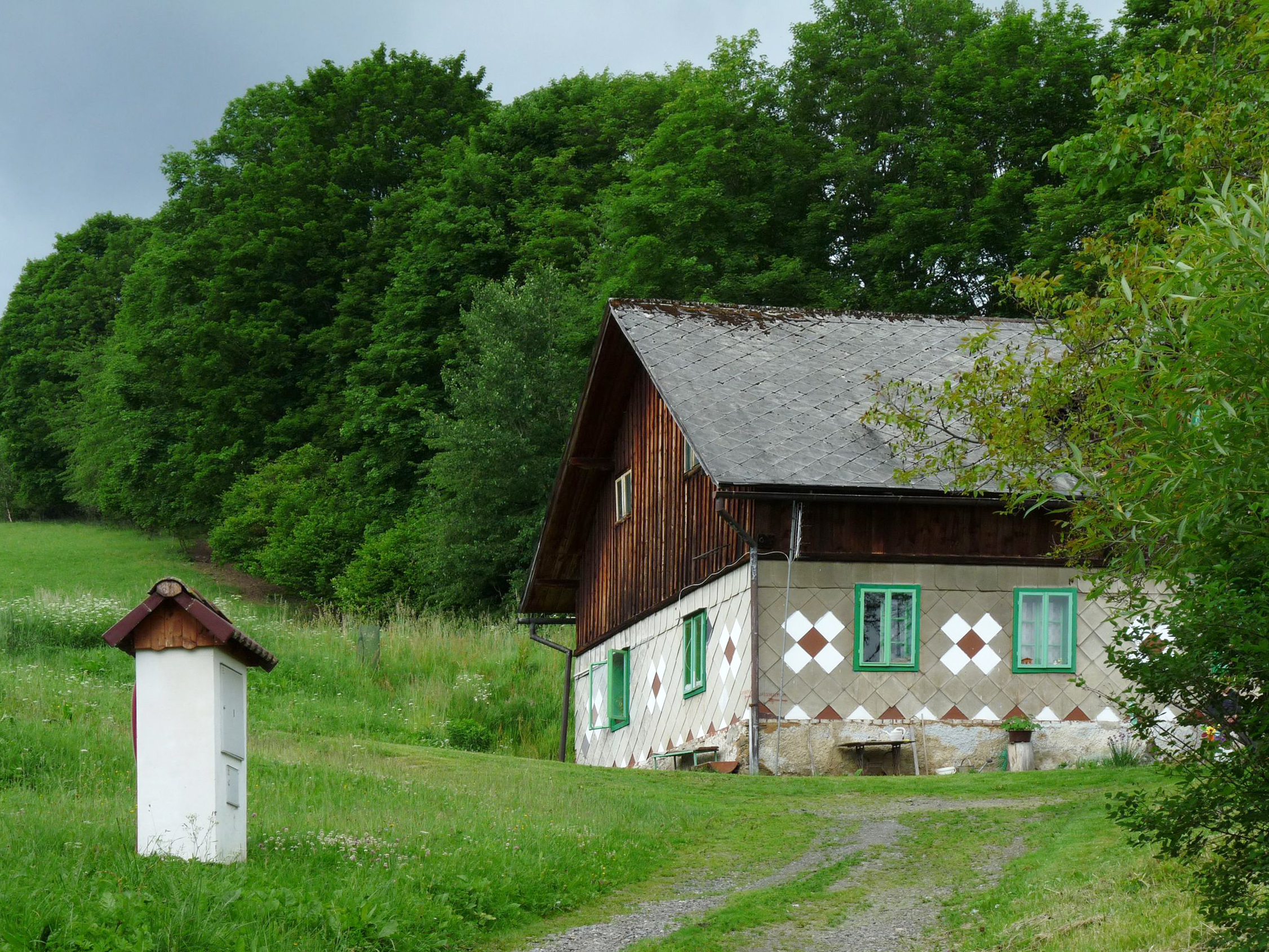 House No 60 in the village of Zálužice, part of the town of Hartmanice, Klatovy District, Plzeň Region, Czech Republic